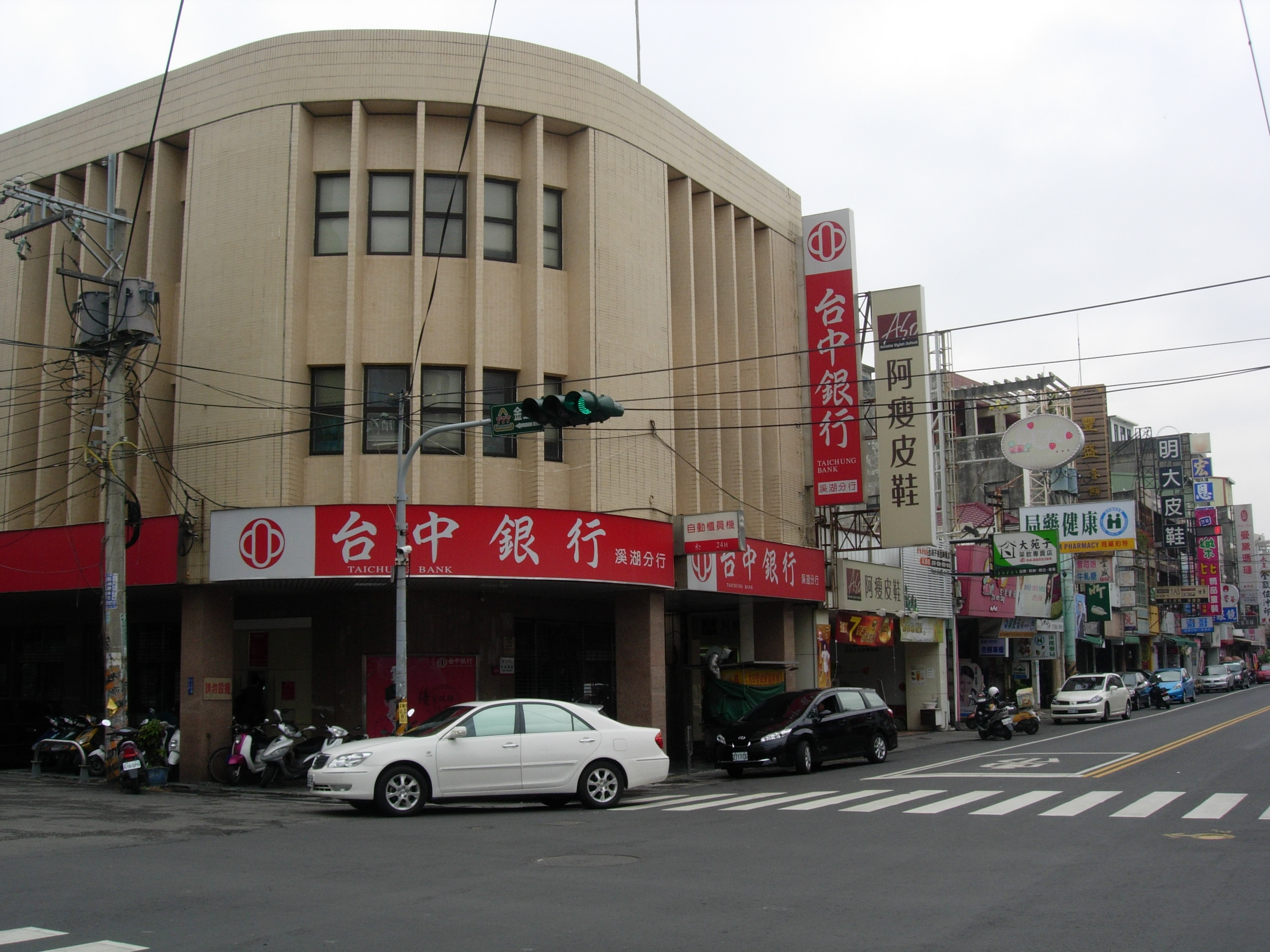 Taichung Commercial Bank Hsihu Branch.中文（台灣）: 台中商銀溪湖分行。